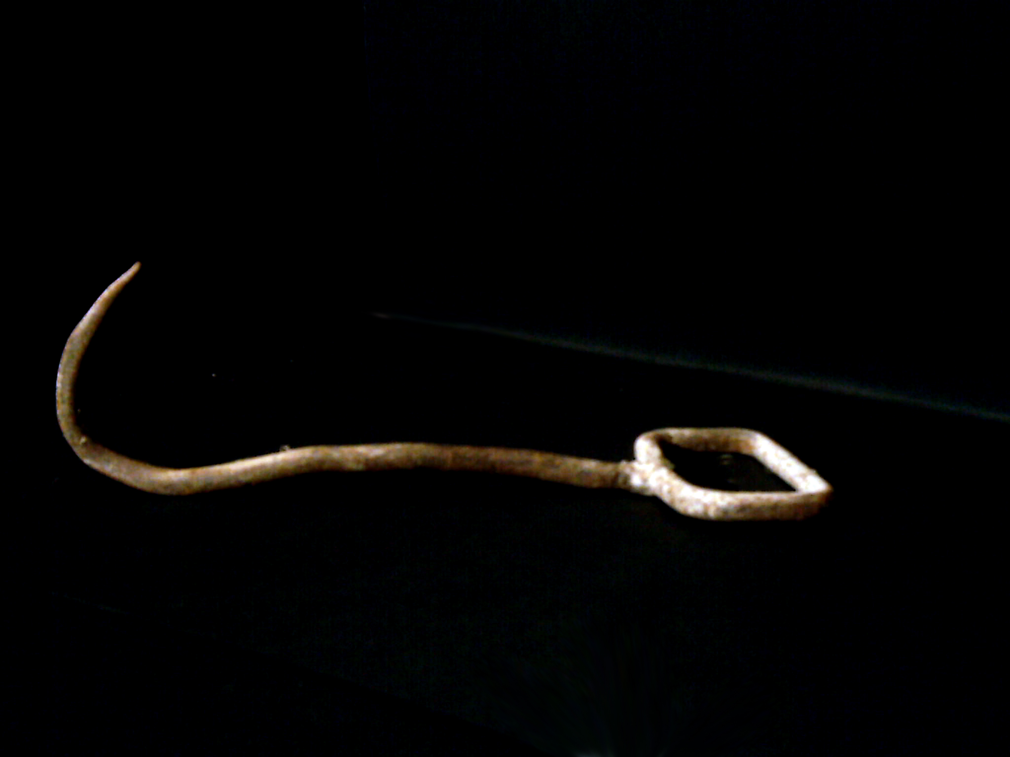 A metal hay hook